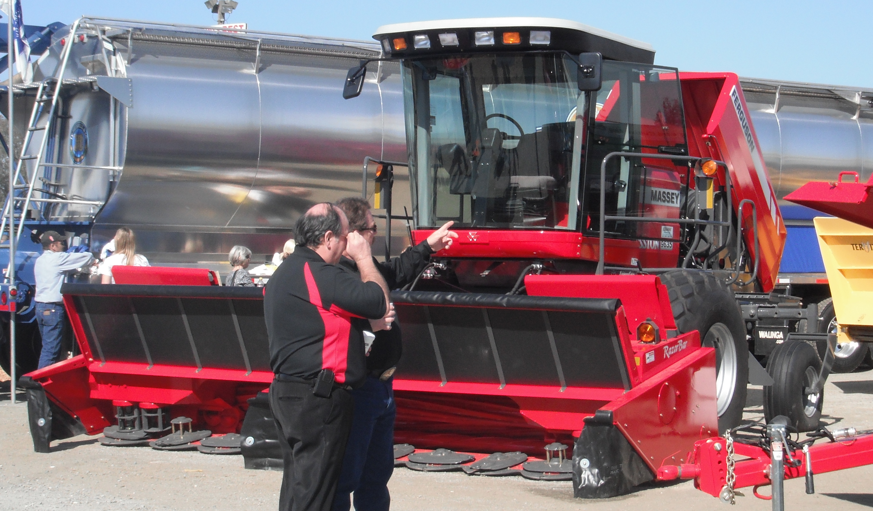 Massey Ferguson Hesston 9635 windrower/swather at World Ag Expo 2011.